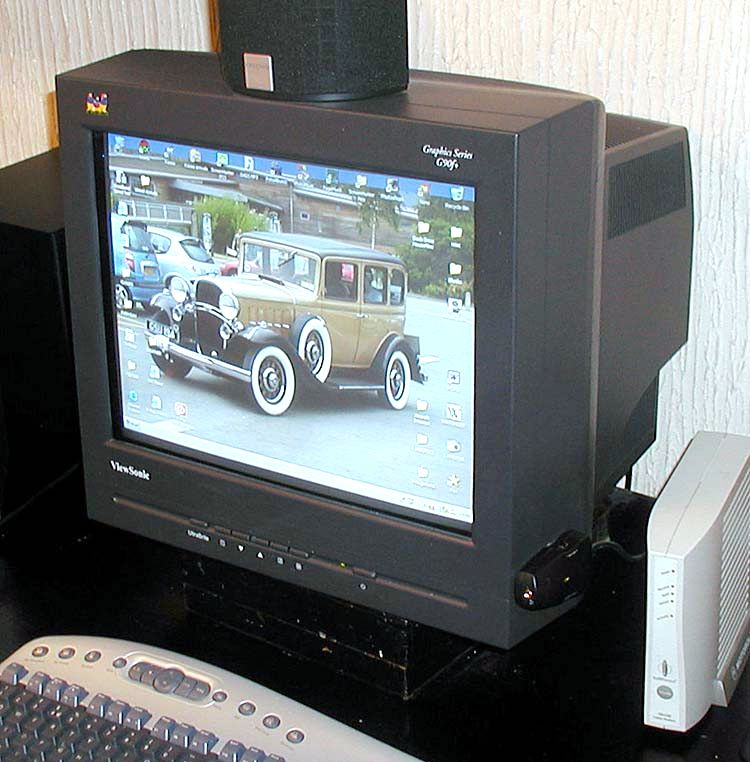 Viewsonic CRT computer monitor.